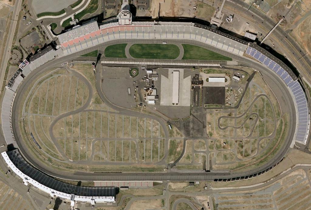 Charlotte Motor Speedway image taken in the NASA World Wind software